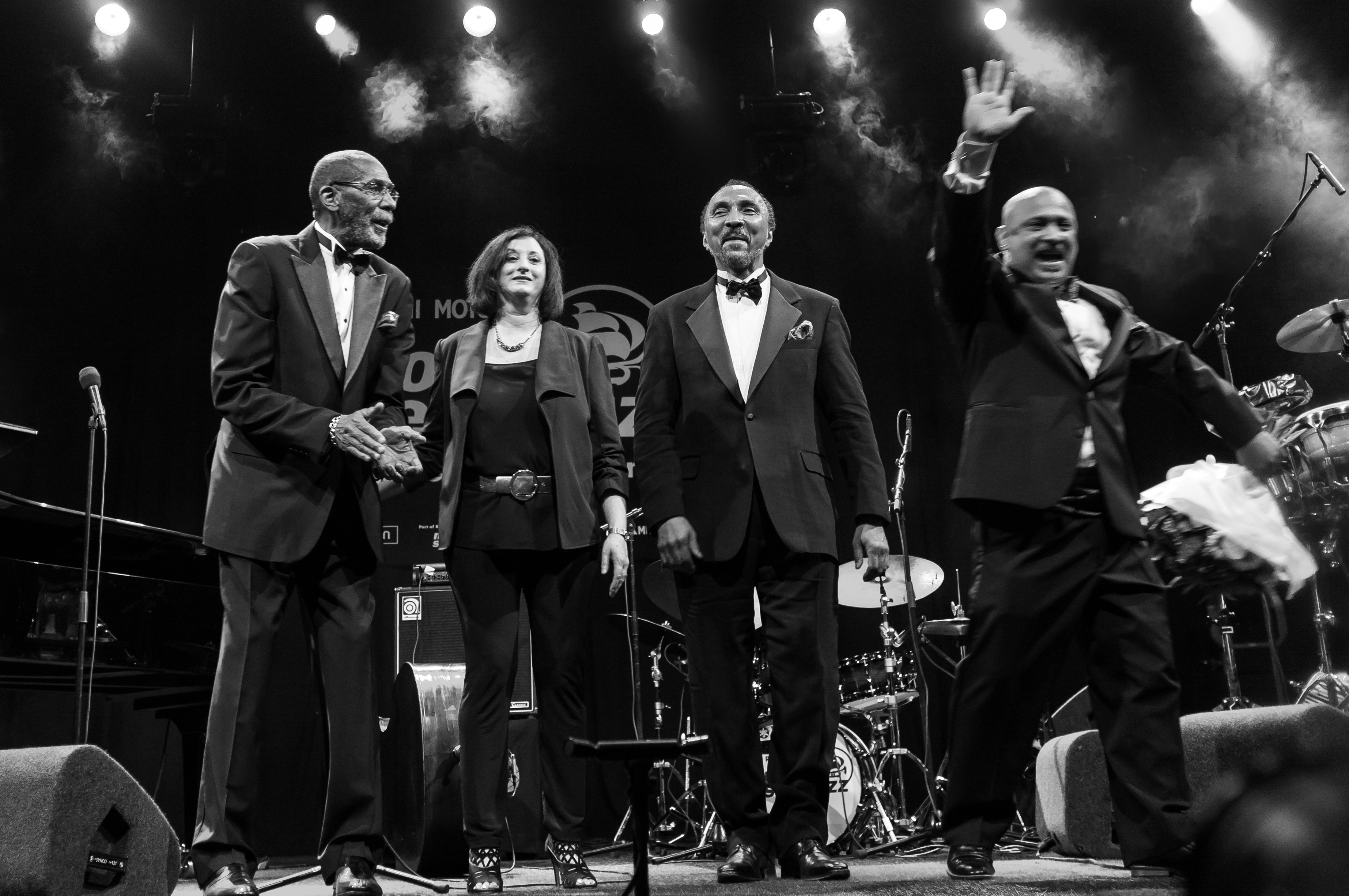 Ron Carter Foursight (v.l.n.r) Ron Carter (bass, lead), Renee Rosnes (piano); Payton Crossley (drums); Rolando Morales-Matos (percussion).